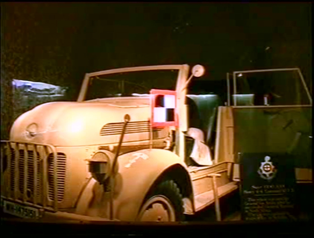 General von Arnim's staff car (Steyr Type 1500A) at the Eastbourne Redoubt captured by the Royal Sussex Regiment in Tunisia.